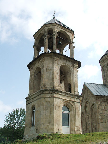 Racha region, Bell tower at ნიკორწმინდა / Nikortsminda